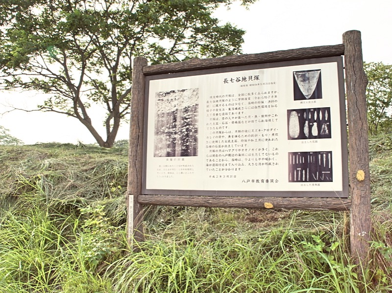 Choshichiyachi Shell Midden site in the city of Hachinohe, Aomori Prefecture, Japan